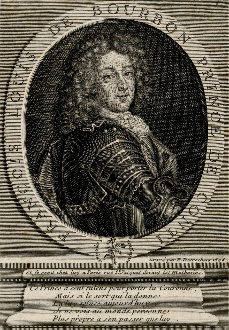 François Louis de Bourbon, Prince of Conti in a 1698 engraving by Desroches